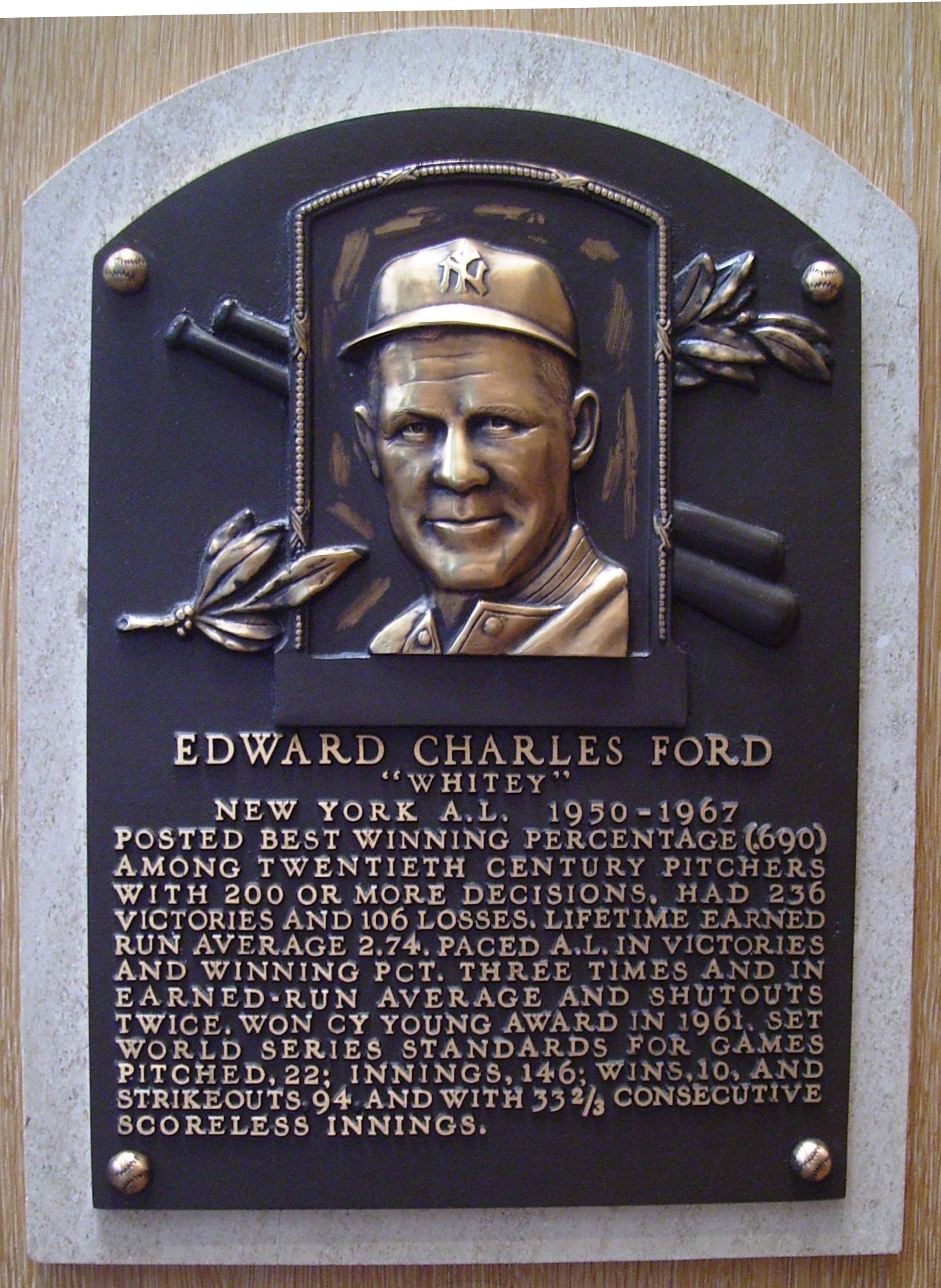 Whitey Ford's plaque in the National Baseball Hall of Fame and Museum